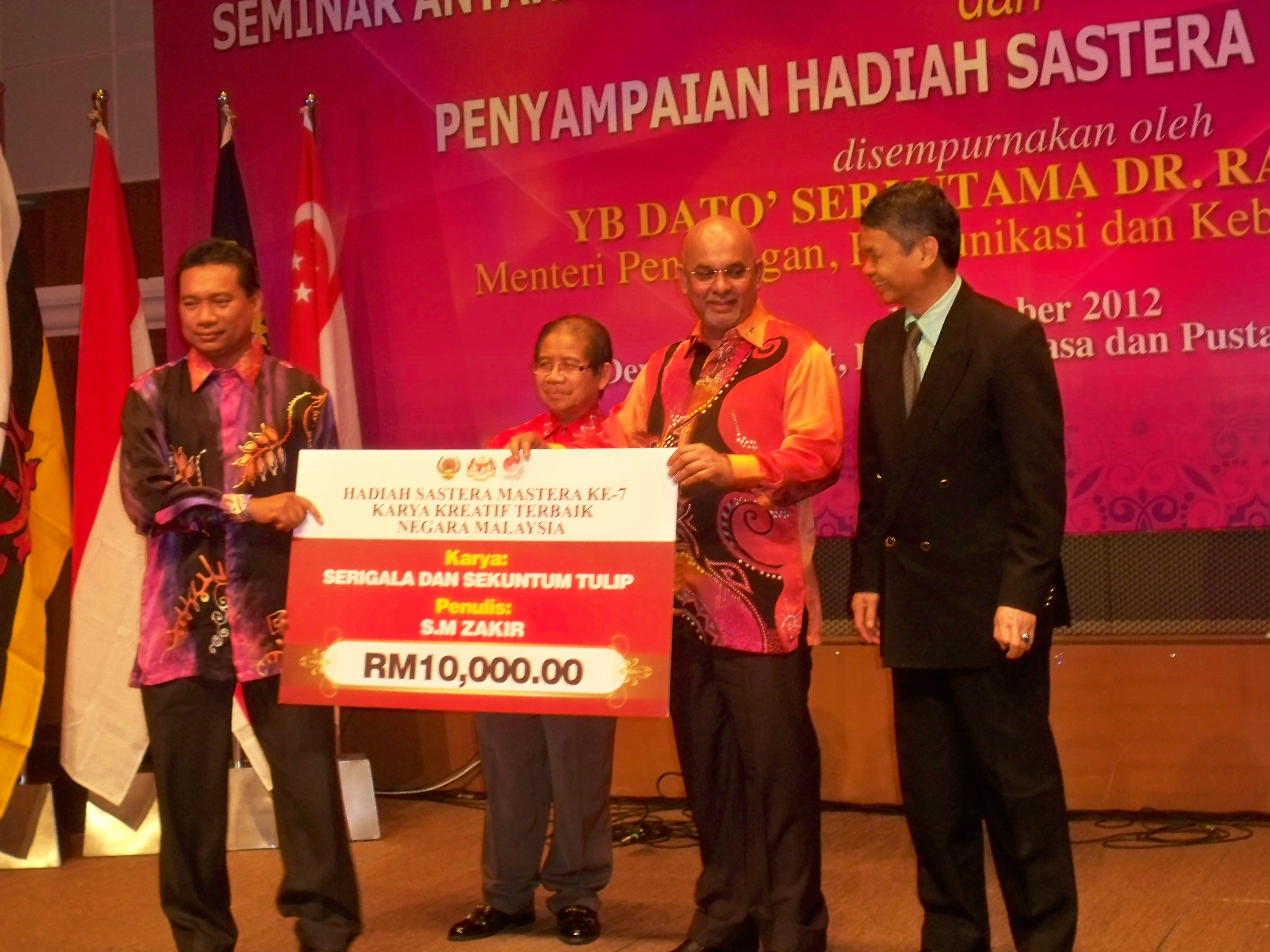 Presentation of the Mastra Award to the Malaysian writer Syed Mohamed Zakir (standing on the left) October 17, 2012